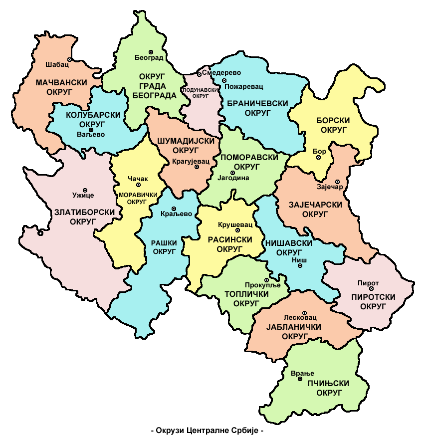 Map of districts in Central Serbia - Serbian language Cyrillic script version.